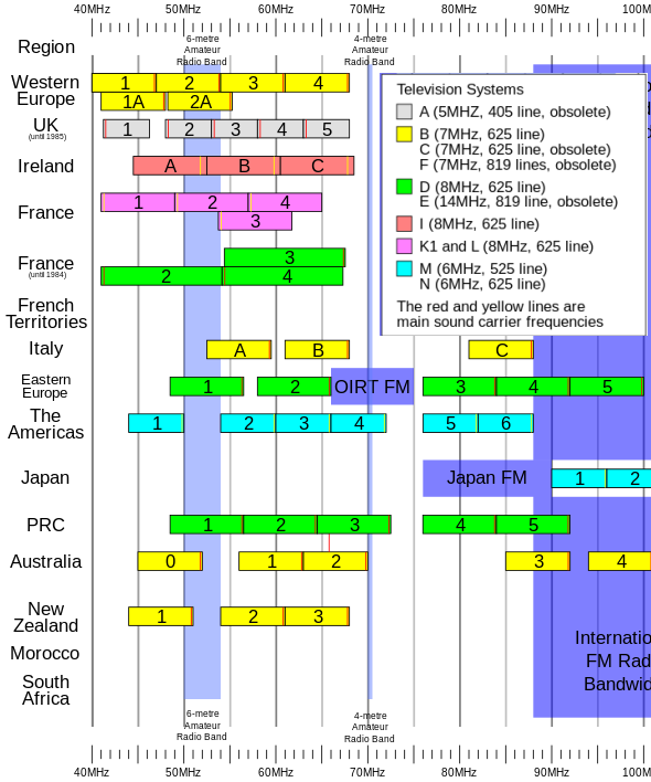 Cropped to focus on VHF area below 100 MHz. Original caption: The VHF radio band, showing usage for television, FM radio, Digital Audio Broadcasting, amateur radio, marine radio and aviation by frequency and location. Legend: Television channels are represented by their frequency blocks. Each colour represents a different TV system: Grey for system A, yellow for systems B, C and F, green for systems D and E, red for system I, magenta for systems K1 and L, and cyan for system M. The yellow and red lines in each channel block represent the main audio frequency. The other radio systems used on VHF are represented as coloured bands: blue for FM radio and Marine VHF radio, aquamarine for amateur radio, and green for DAB.